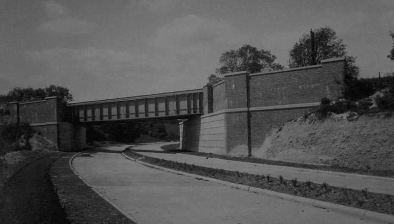 The original A33 Winchester Bypass, between Hockley and Compton, Hampshire, England, shortly after opening in 1940. The road was removed as part of the M3 Bar End - Compton contract in 1994.